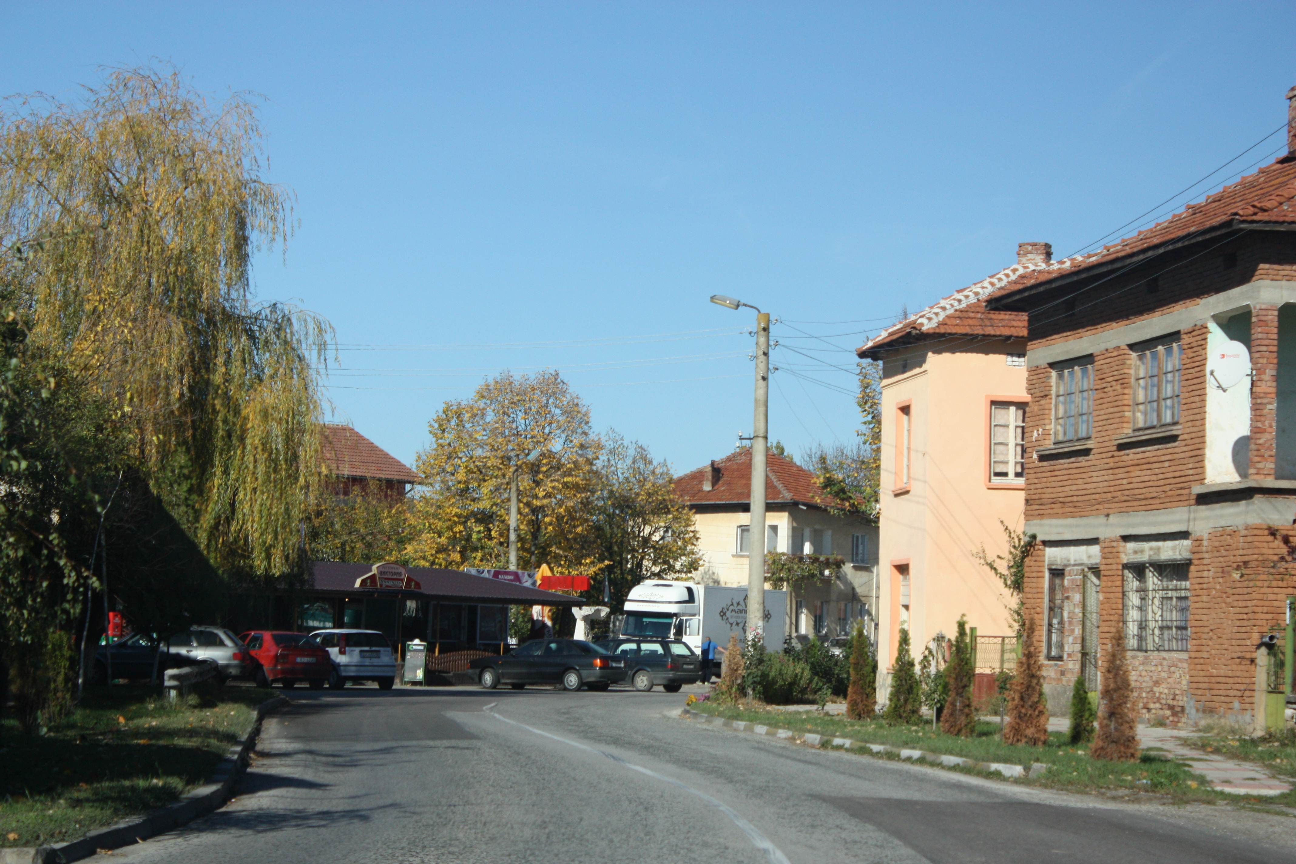 Petrevene main street